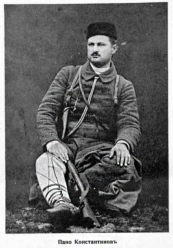 Pancho Konstantinov (1881 - 1906), Vojvoda of Veles, member of the Internal Macedonian-Adrianople Revolutionary Organization